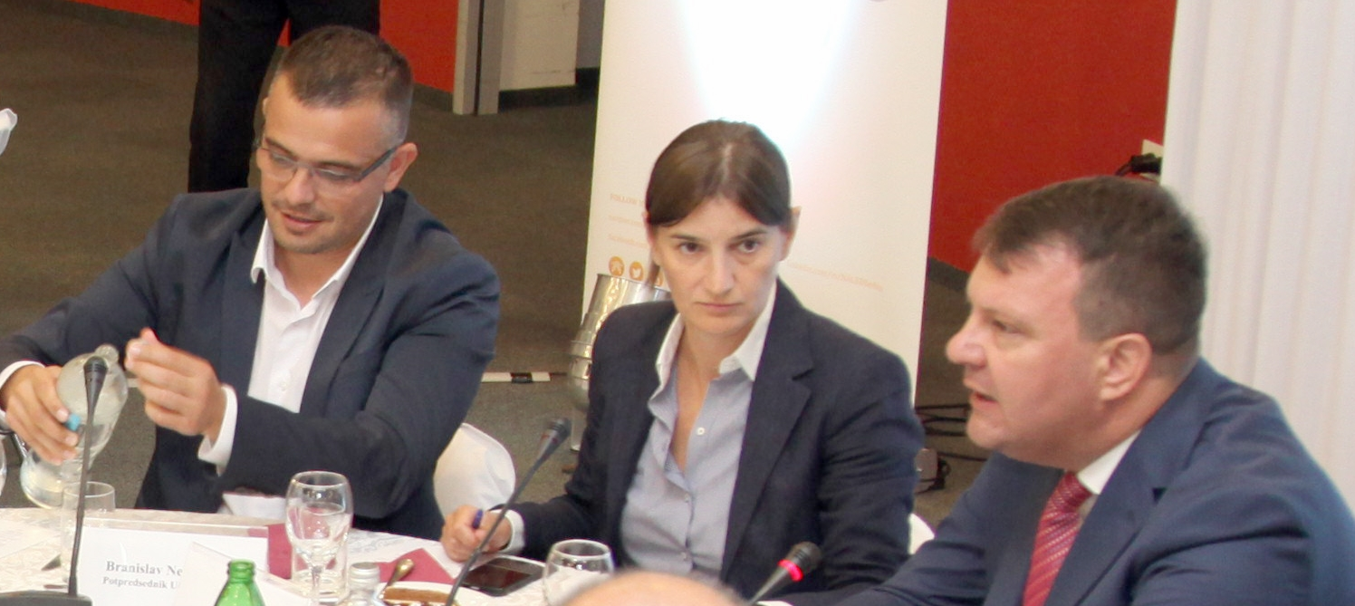 Branislav Nedimovic, Ana Brnabic, Igor Mirovic